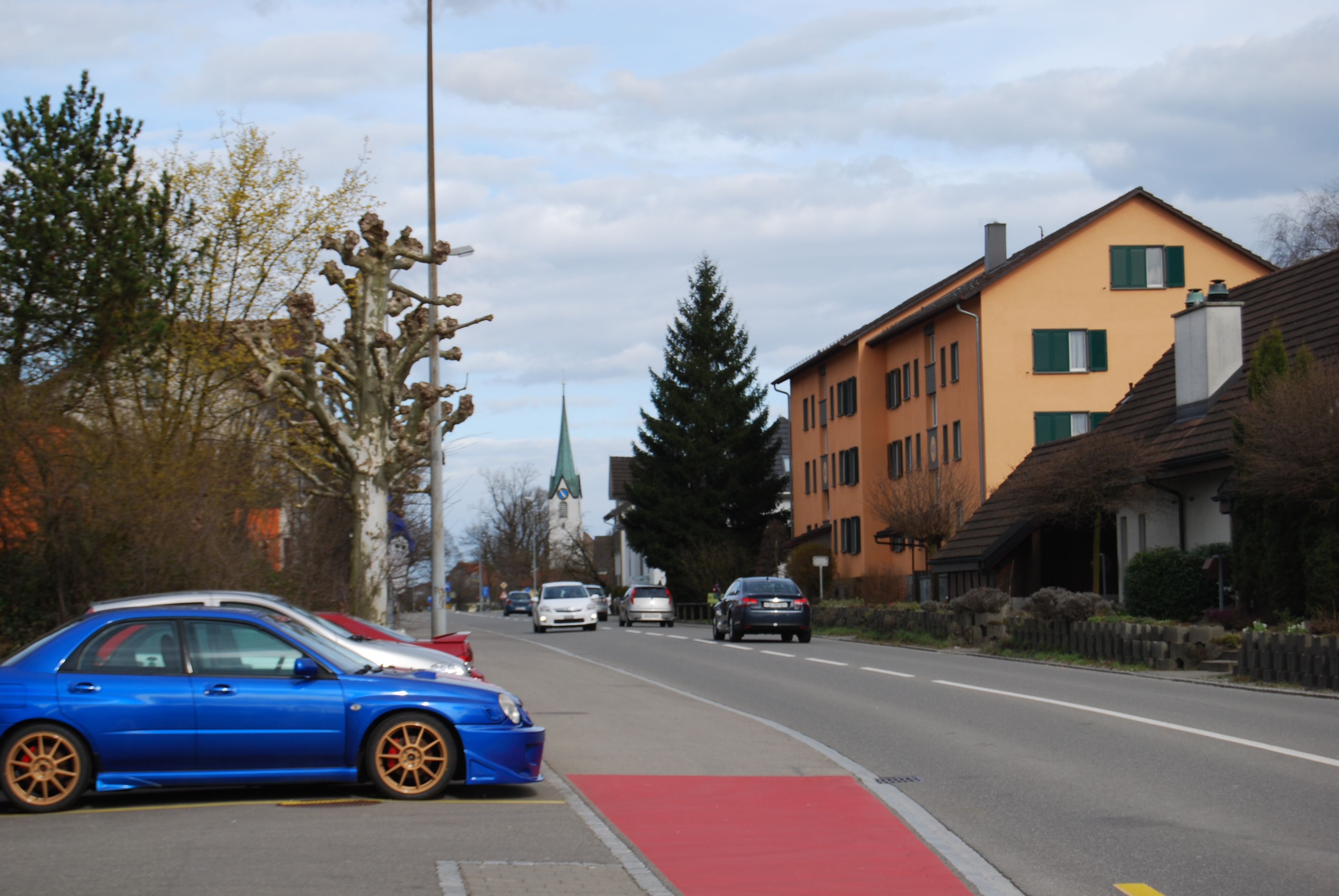 Protestant church of Erlen, canton of Thurgovia, SwitzerlandEsperanto: Reformita preĝejo de Erlen, Kantono Turgovio, Svislando